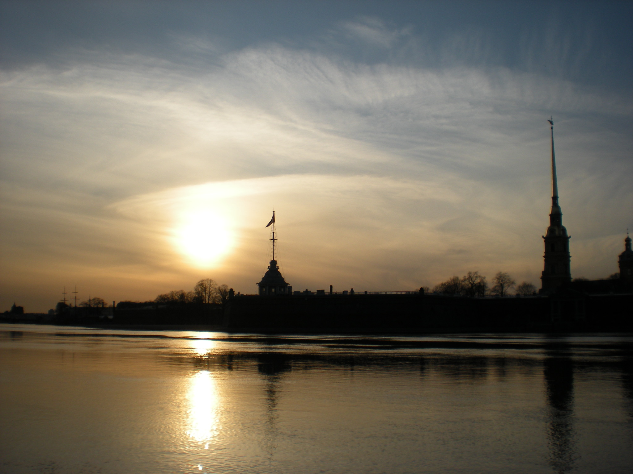 Beautiful sunset over Neva River and Peter and Paul Fortress in St. Petersburg, Russia. The fortress is located on Hares' Island. Find out more interesting photos at out travel blog